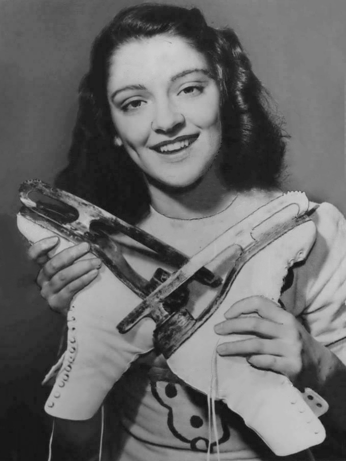 1948 Press Photo Marilyn Ruth Take Canadian figure skater for the Olympics